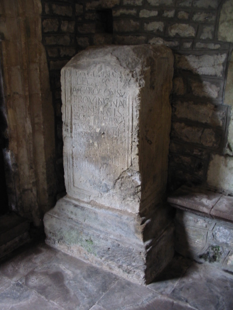 The "Civitas Silurum Stone" This stone appears to have been the base of a statue (now lost?), and bears an important inscription which confirms the existence of the Civitas Silurum or the Romanized self-governing body of the Silures tribe. The so-called 'Civitas Silurum Stone' is now on display in Caerwent church. AE 1903, 232 = AE 1904, 31 = AE 2014, 1047 = RIB 1, 311: TI[berio] CLAVDIO PAVLINO LEG[atvs] LEG[ionis] II AVG[vsta] PROCONSVL PROVINC[iae] NAR RBONENSIS LEG[ato] AVG[usti] PR[o]PR[raetore] PROVIN[ciae] LVGVDVNEN[sis] EX DECRETO ORDINIS RES PVBL[cae] CIVIT[atis] SILVRVM "For Tiberius Claudius Paulinus, legate of the Second Augustan Legion, proconsul of (Gallia) Narbonensis, imperial propraetorian legate of (Gallia) Lugdunensis. By decree of the ordines for public works on the tribal council of the Silures."